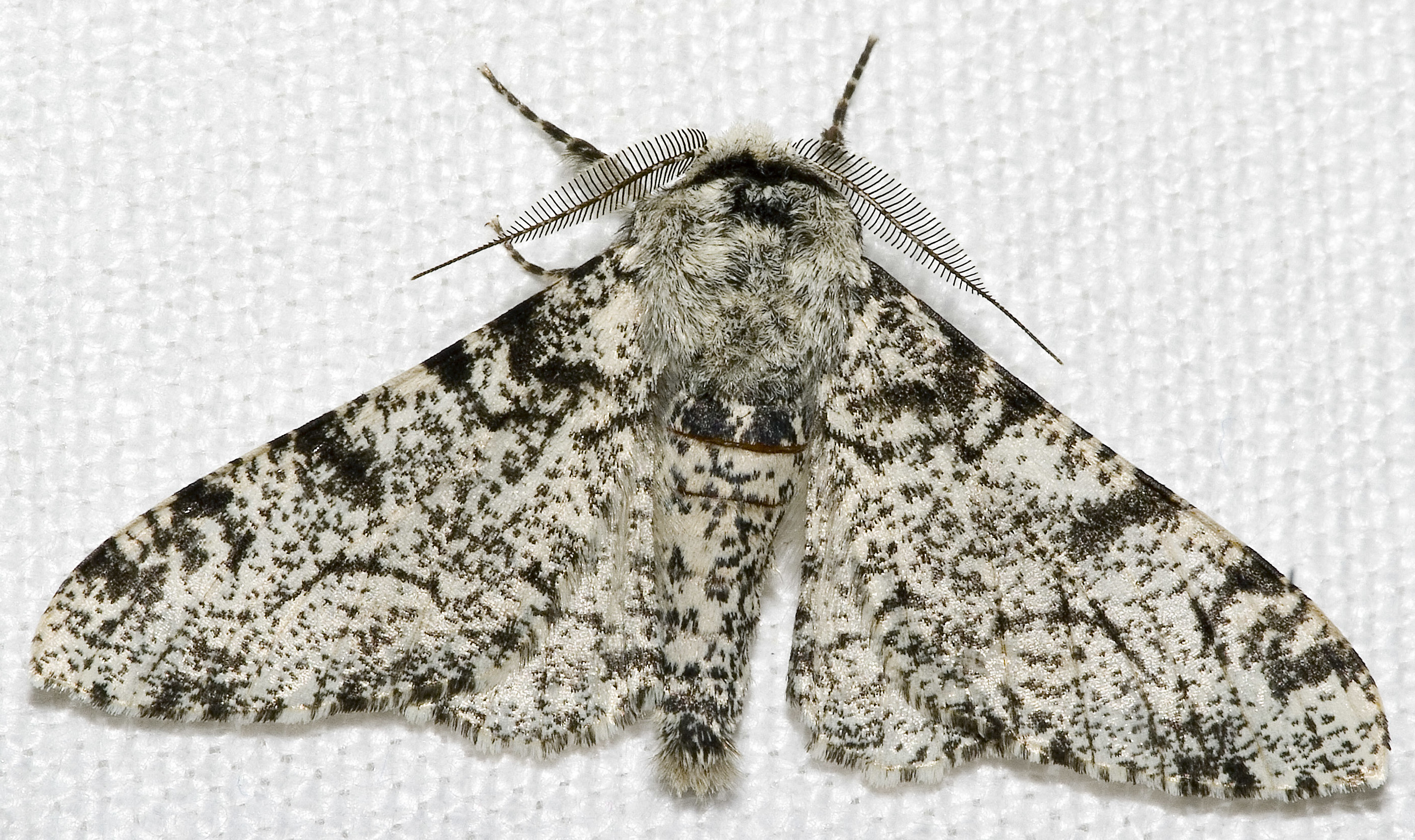 Please report references to .